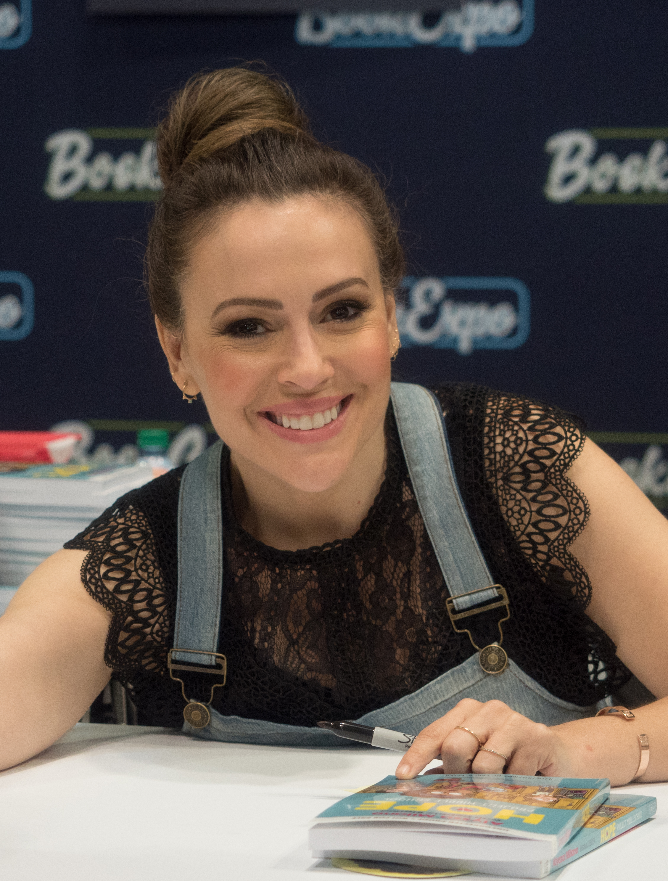 Alyssa Milano at BookCon